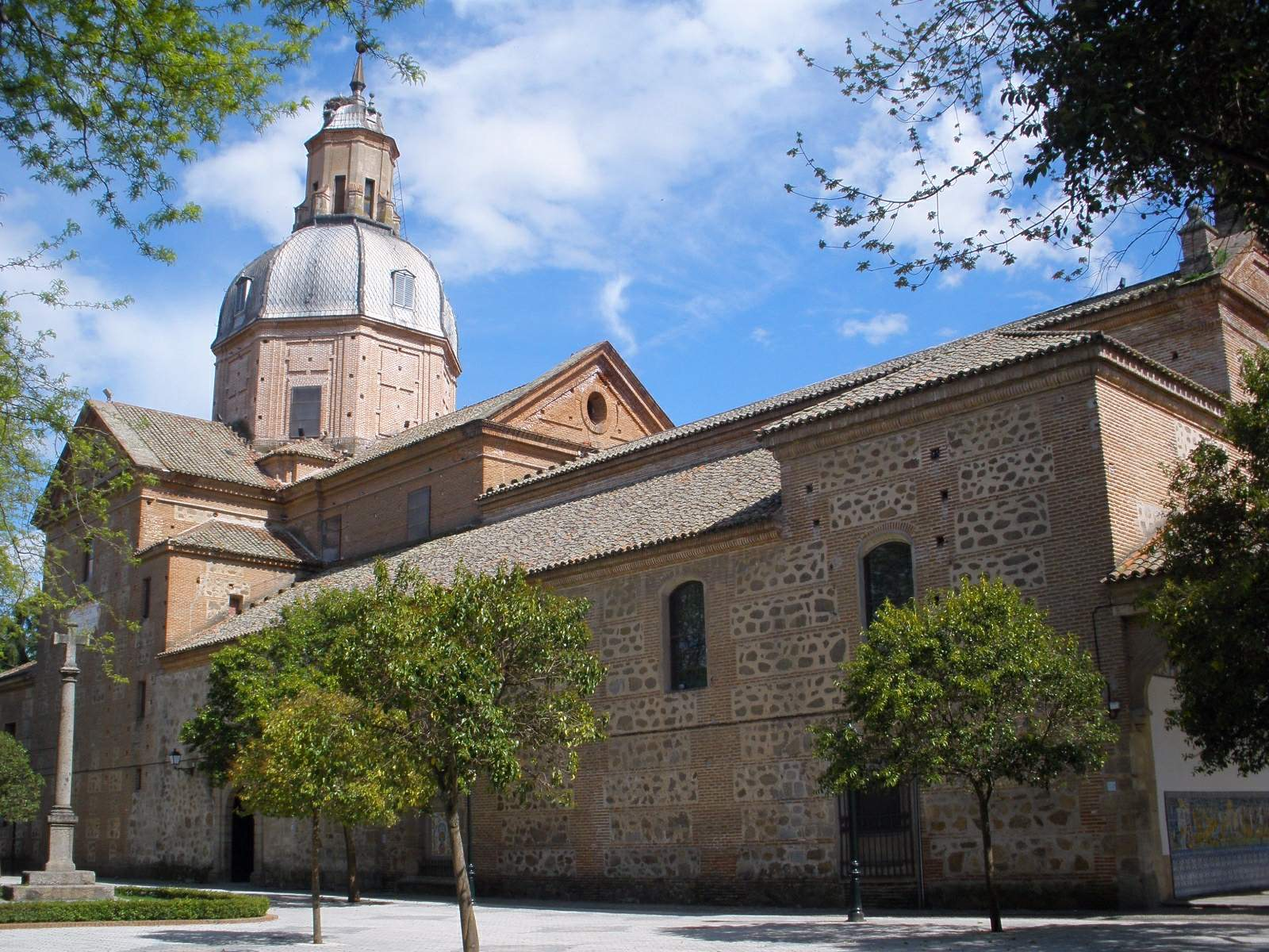 Basílica de N. S. del Prado, Talavera de la Reina